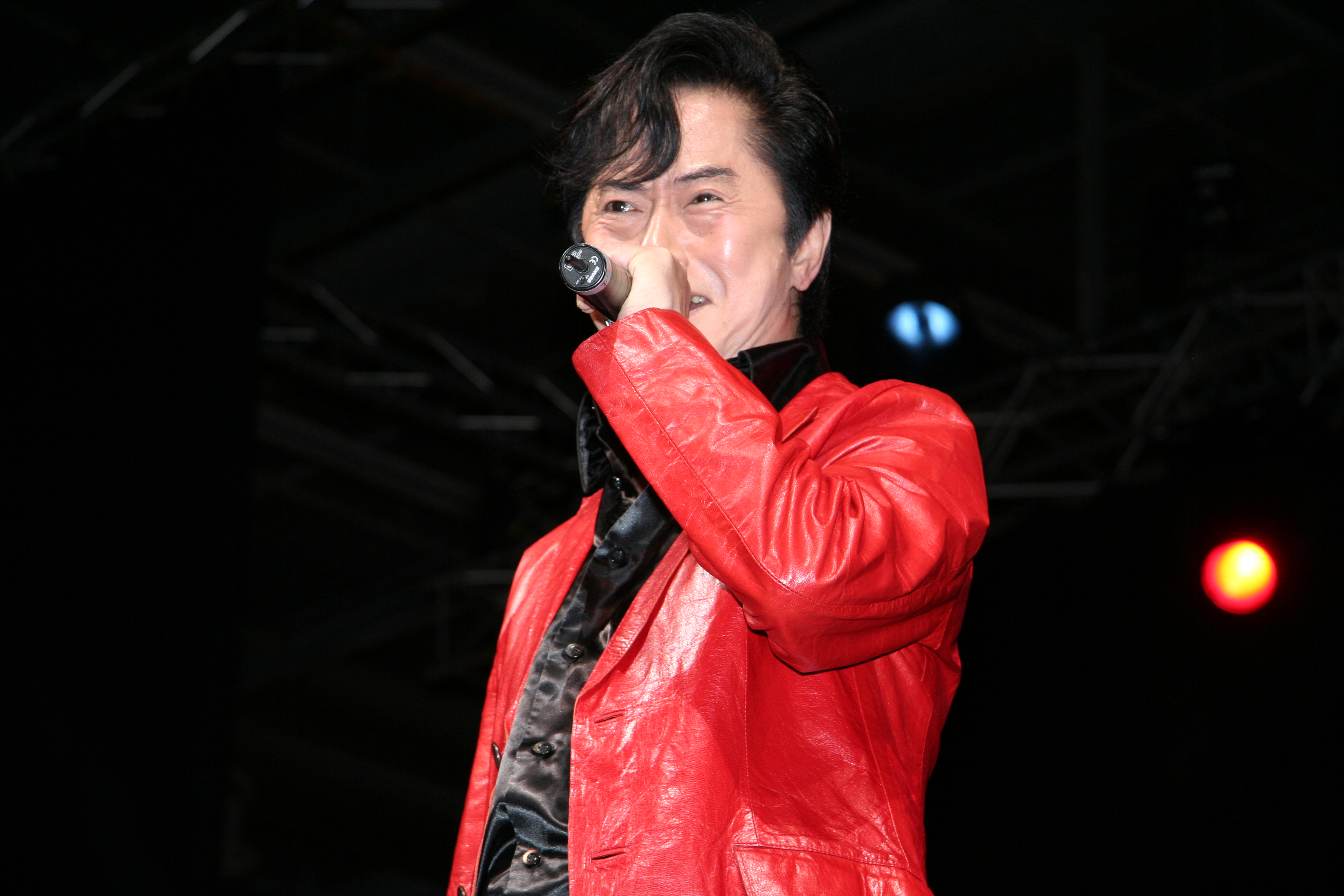 Ichiro Mizuki live at Japan Expo 2007 (Paris, France).